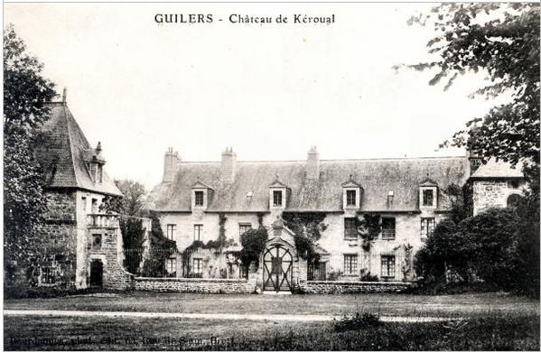 Manor of Keroual, Guilers, near Brest (Finistère), Brittany, France; before its desctruction